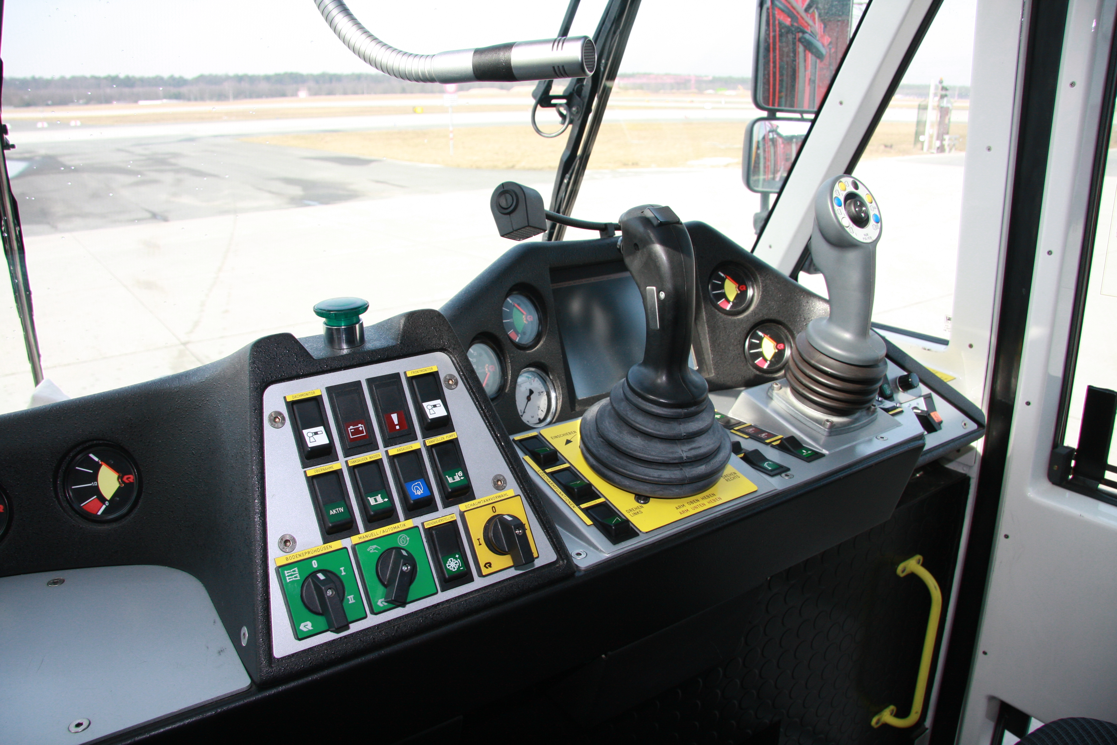 The the joysticks to manipulate the nozzle of the Airport crash tender type Rosenbauer Simba 8x8 belonging to the Aircraft Rescue and Firefighting at Frankfurt Airport